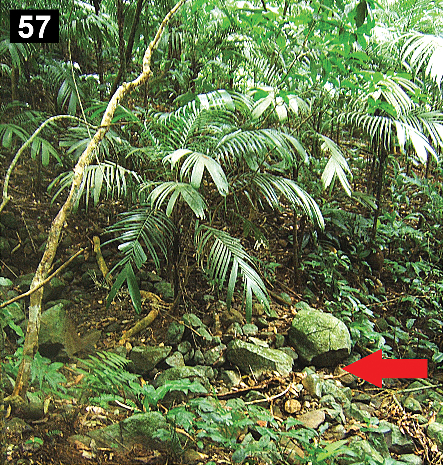 Tropical rain-forest in the Estación de Biología Tropical “Los Tuxtlas”, Veracruz, Mexico. Habitat of Paratropis tuxtlensis, arrow indicates the microhabitat where the specimens were collected (under boulders).